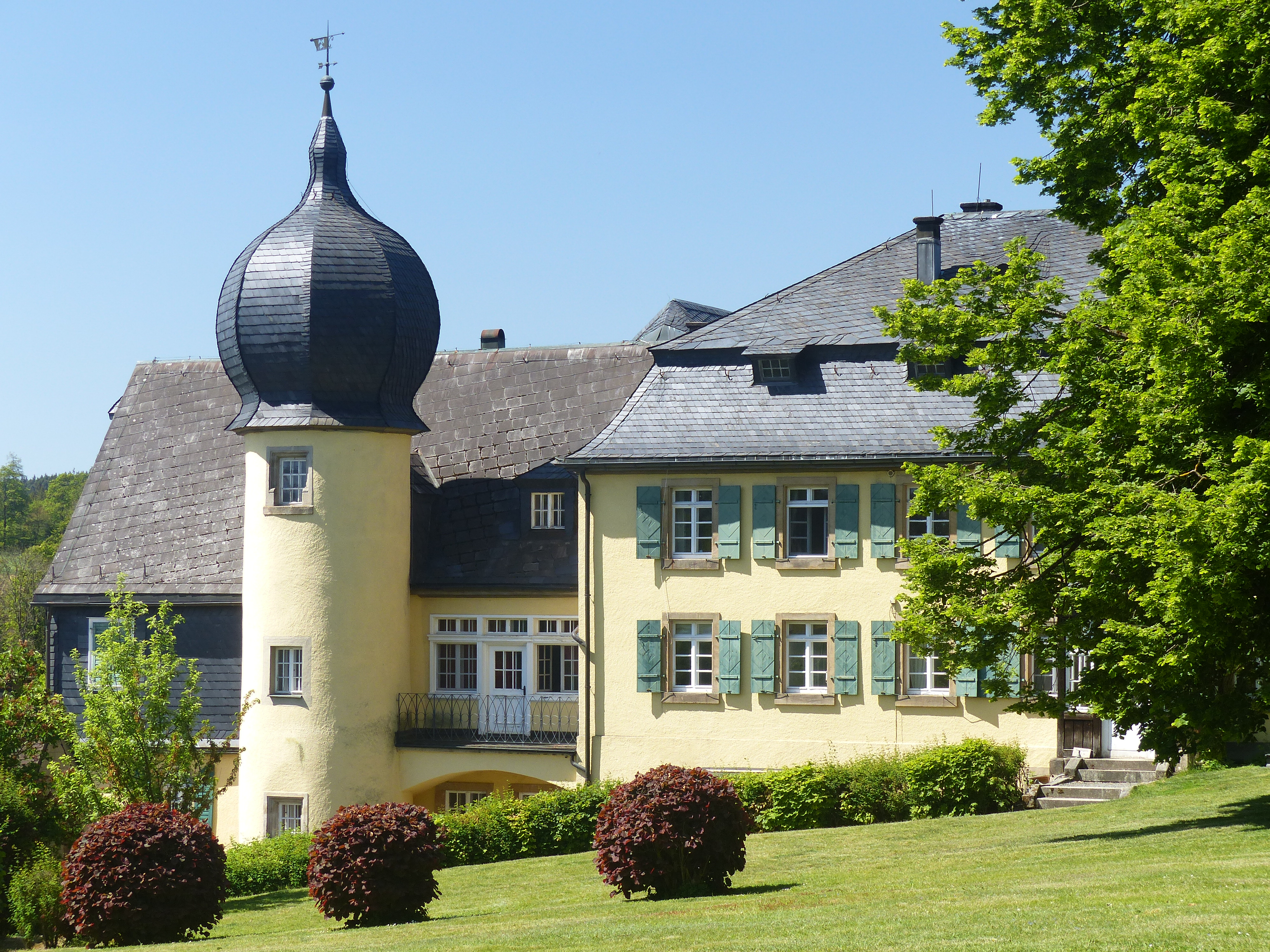 The old château in Heinersreuth, a village and district of the municipality of Presseck.